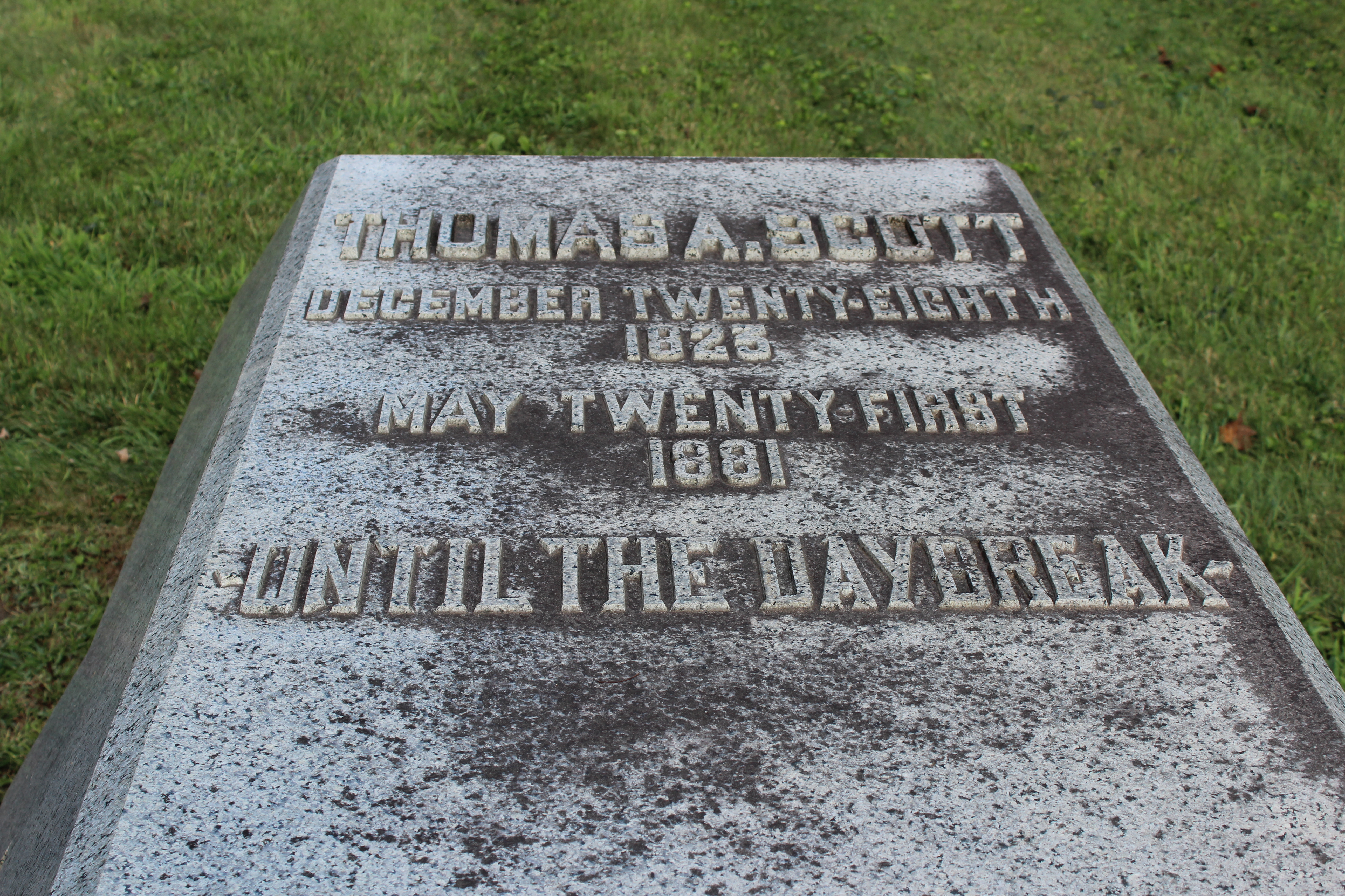 Thomas A. Scott Grave at the Woodlands Cemetery in Philadelphia, Pennsylvania. Photo taken August 2019.